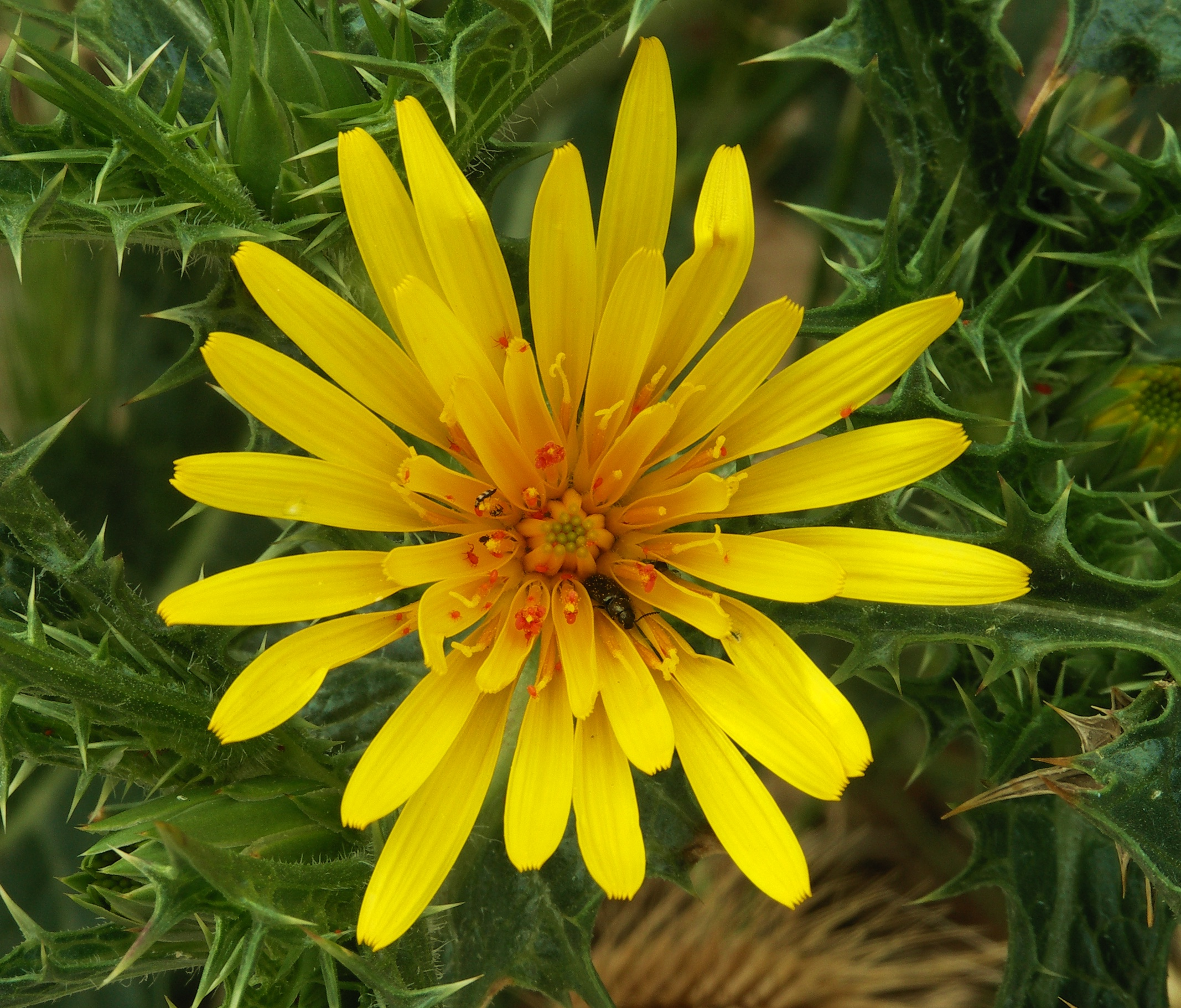 Spanish oyster flower (Scolymus hispanicus) with mites and beetles